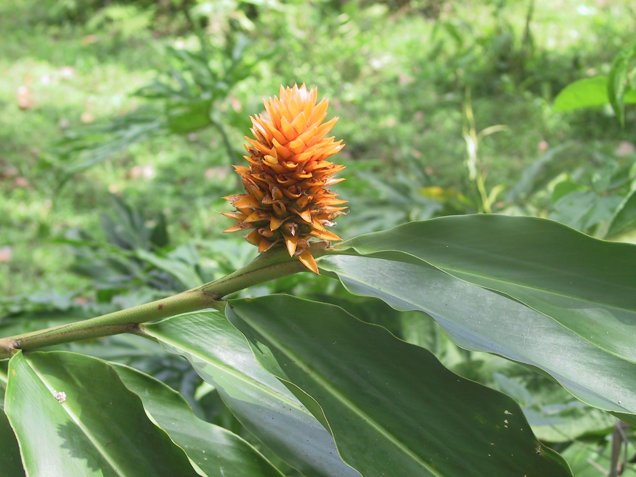 Description: Renealmia cernua, Costa Rica (base of Cerro Mochila, east part of Matama mountains, Cordillera de Talamanca) Source: self made Date: 20021203 Author = --Ruestz 20:20, 5 June 2006 (UTC)